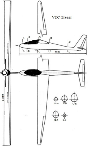 Drawing of the Yugoslav Glider VTC Trener